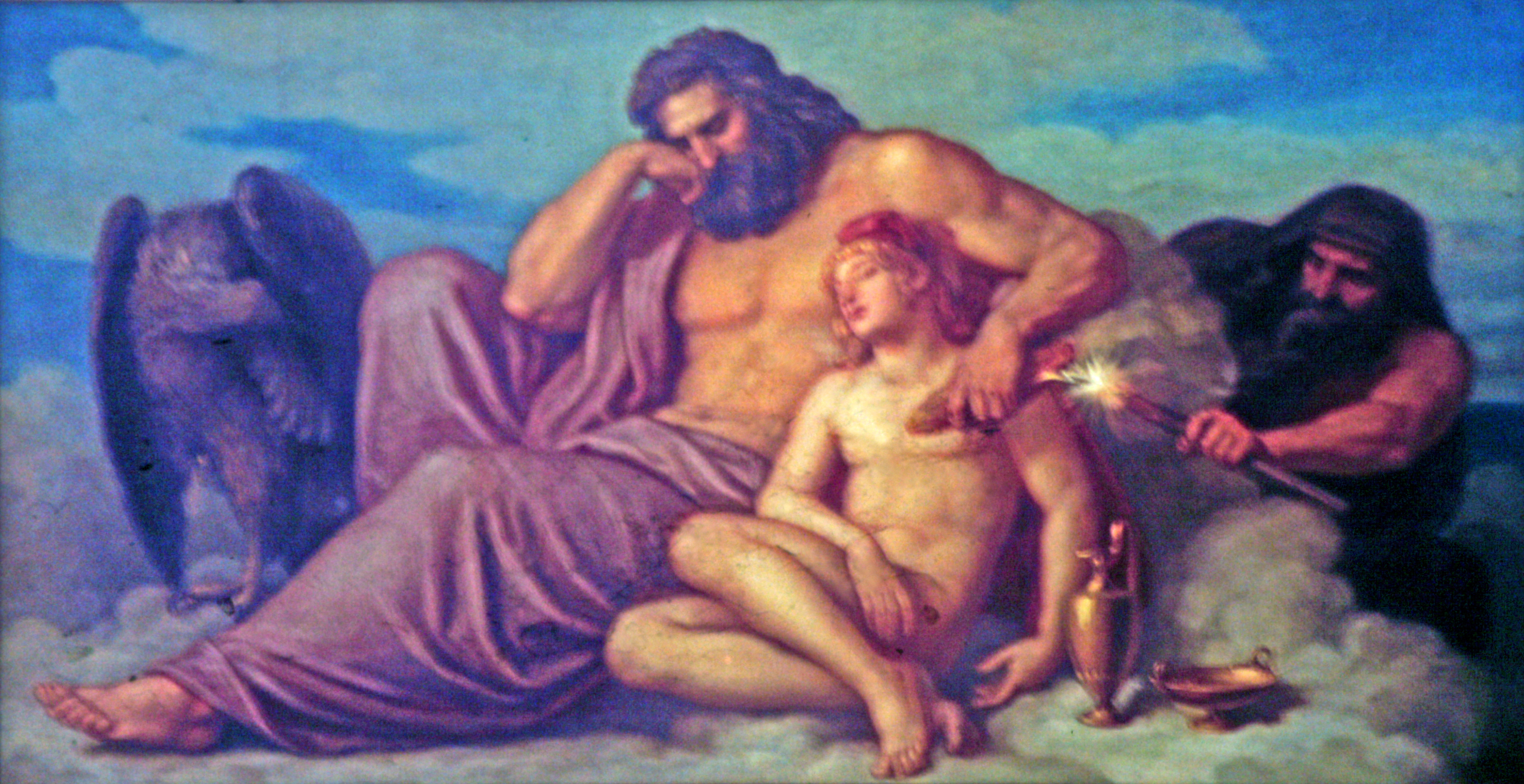 part of a cycle on the myth of Prometheus